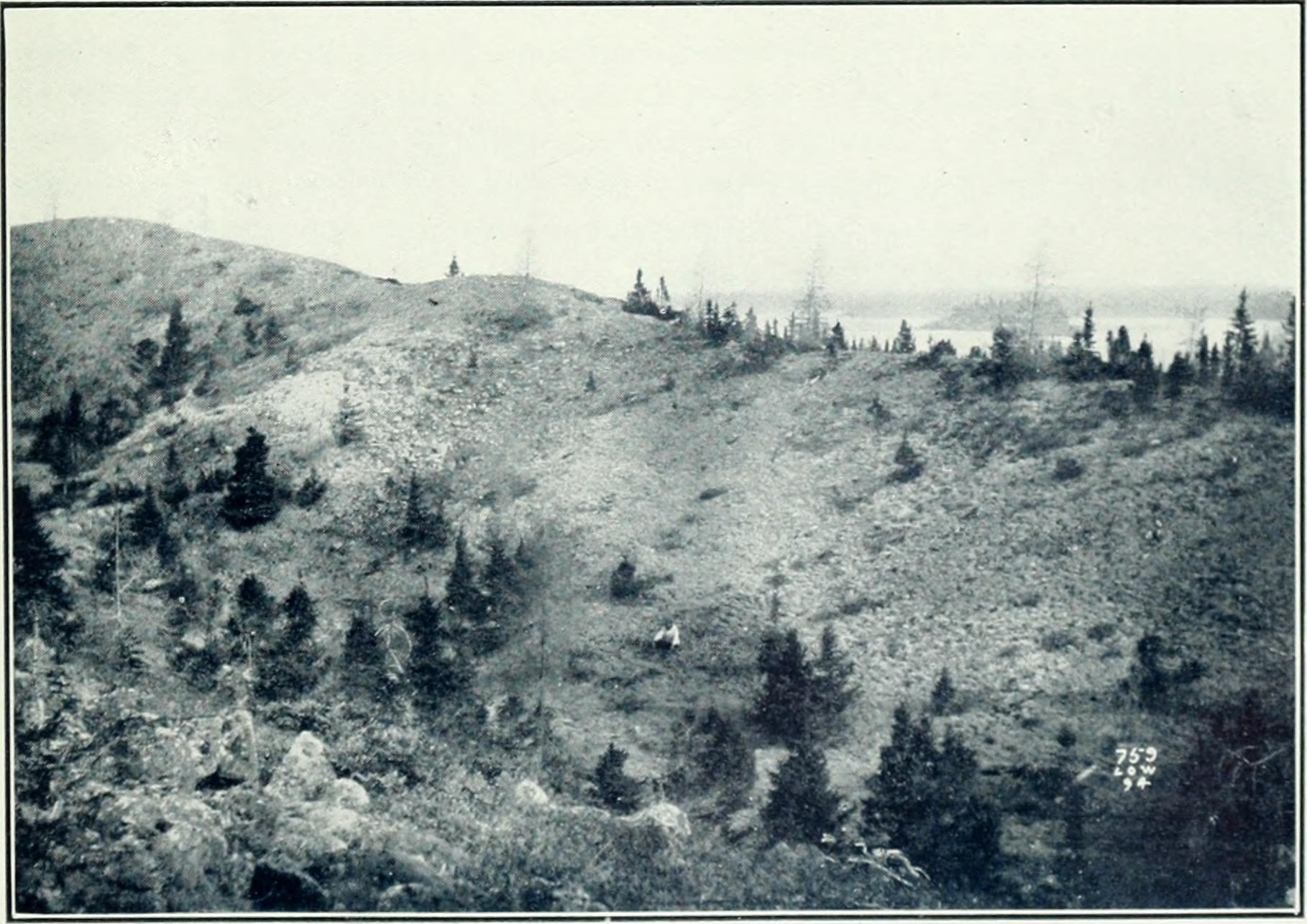 Title: Extracts from reports on the district of Ungava, recently added to the province of Quebec under the name of the territory of New Quebec Year: 1915 (1910s) Authors: Québec (Province). Bureau of Mines Subjects: Publisher: Quebec, Printed by E. Cinq-Mars, 1915 Text Appearing Before Image: VALLEY OF THE WIACHOUAN RIVER Near its outlet Richmond Gulf. Text Appearing After Image: ESKER RIDGE, ALONG ASHUANIPI BRANCH—Hamilton River. ASHUANIPI BRANCH 75 with several small rapids, especially along the upper part, the last a heavy one200 yards long, where the river flows out of Dyke Lake. There are twelve milesof river between the lakes, and several small streams enter by deep bays on bothsides. At the foot of the upper rapid two channels separated by tvv/o long islandsjoin as the river issues from Dyke Lake. The shores along the river are low and well wooded, and the general flatnessof the surrounding country is broken by a few short rocky ridges of irregular out-line on both sides. Entering Dyke Lake by the right-hand channel, a bay about one mile wide andfour miles long is ascended to the end of the large island that extends from BirchLake. The bay is walled in between steep rocky ridges that rise from 300 to 500feet above the surface. The ridge on the north side terminates abruptly in asharp pointed hill 490 feet high and cut transversely to the ridge by a gr